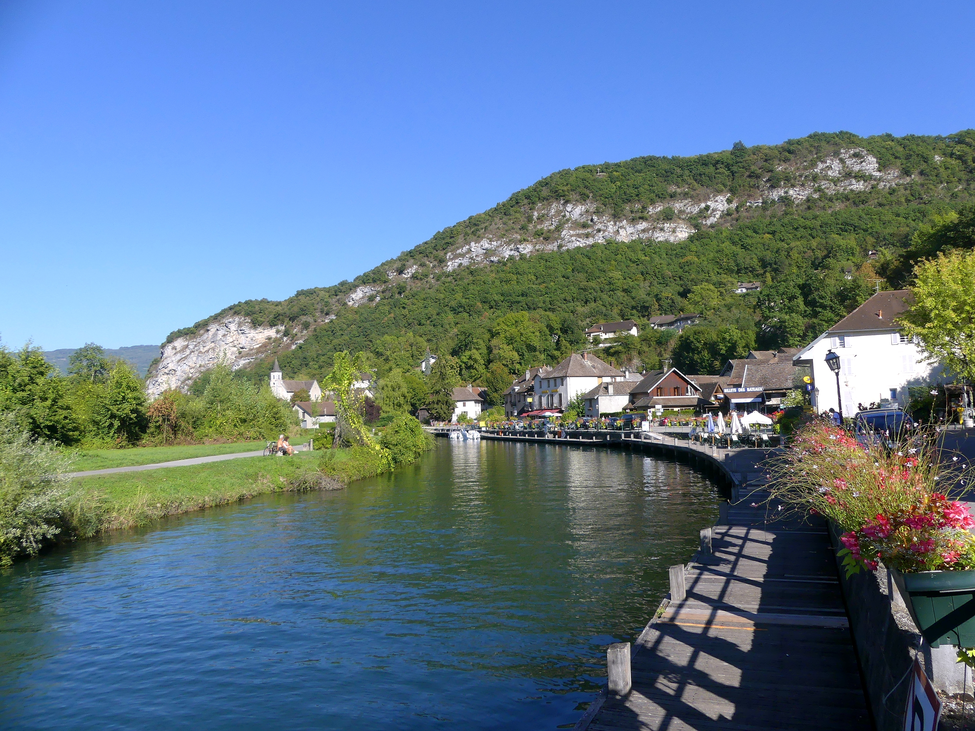 Sight, in the evening, of Chanaz village crossed by the Canal de Savières canal, here in the direction of Bourget lake, in Savoie, France.